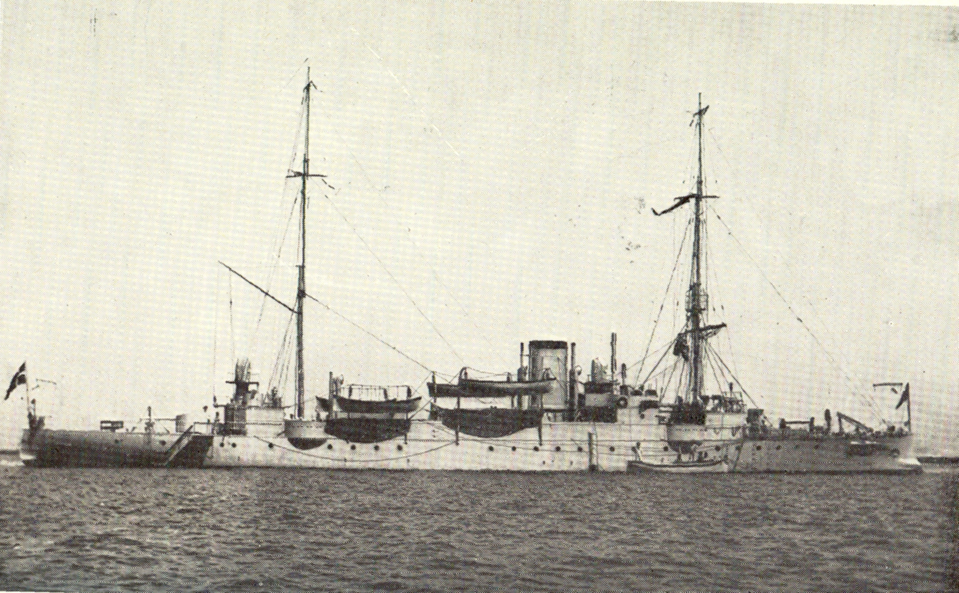 Small Danish Cruiser Hekla 1909